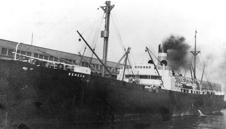 From U.S. Navy public domain Photo #: NH 89796 S.S. Seneca (American Freighter, 1900) In port, circa 1917. While in pre-World War I commercial service under the German flag, this ship was named Wartburg and Tübingen. She was seized by the U.S. Government in April 1917 and renamed Seneca. Between February 1918 and April 1919 she served as USS Wabash (ID # 1824). U.S. Naval Historical Center Photograph.